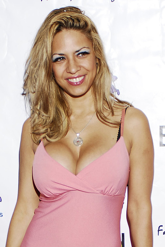 Dita de Leon at the 79th Annual Academy Awards Children Uniting Nations/Billboard afterparty.